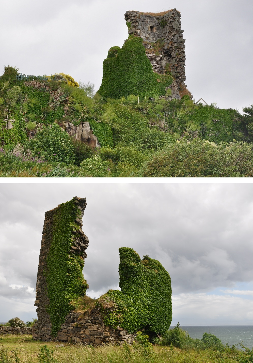 The remains of Kildonan Castle in Kildonan (Isle of Arran, North Ayrshire, Scotland), as seen from the shore (above) or up close (below).